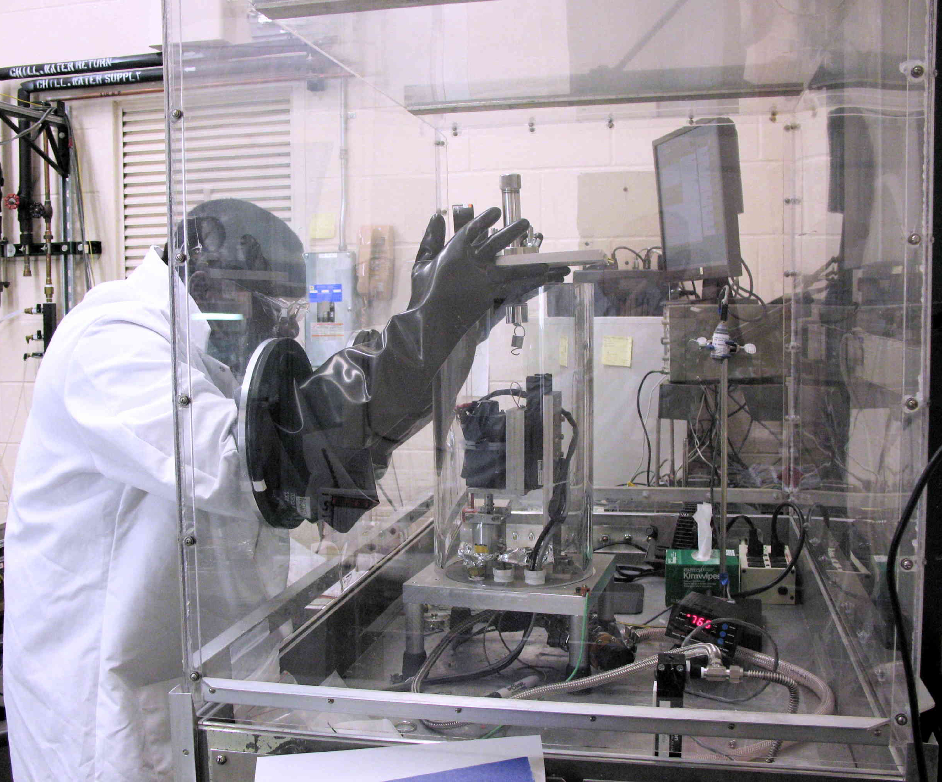 The hydrogen tribometer is being used to test new types of materials and protective coatings that are to be used in the internal components of hydrogen compressors, for both pipelines and hydrogen filling stations (for hydrogen vehicles). See the entire Tribology Laboratory photo tour. View more about Argonne's transportation research at Photo courtesy of Argonne National Laboratory.